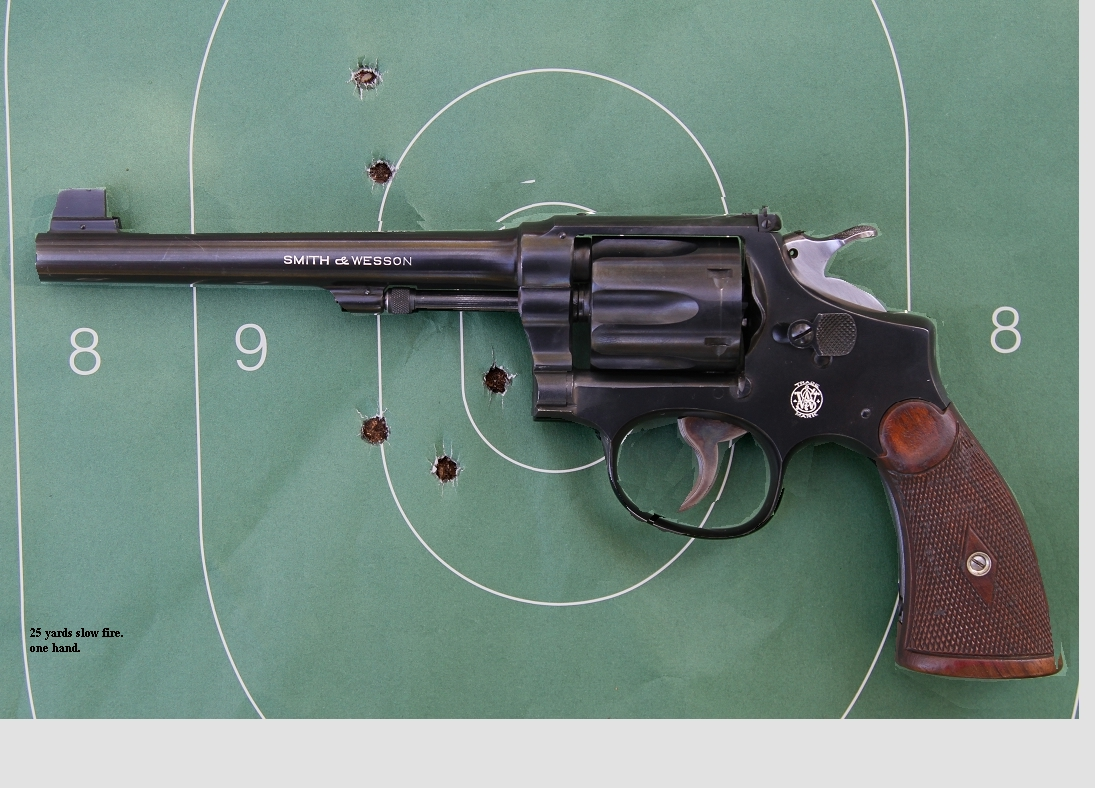 Smith and Wesson 1905 4th change 1915 Target model. "NRA"Slow Fire at 25 yards. This one left the factory in 1929 and was sent with ten others to a firm in Buenos Aires. The hammer was added later and is in the general form of the King Gun Shop modification usually intended for the timed and rapid fire portions of the NRA course.